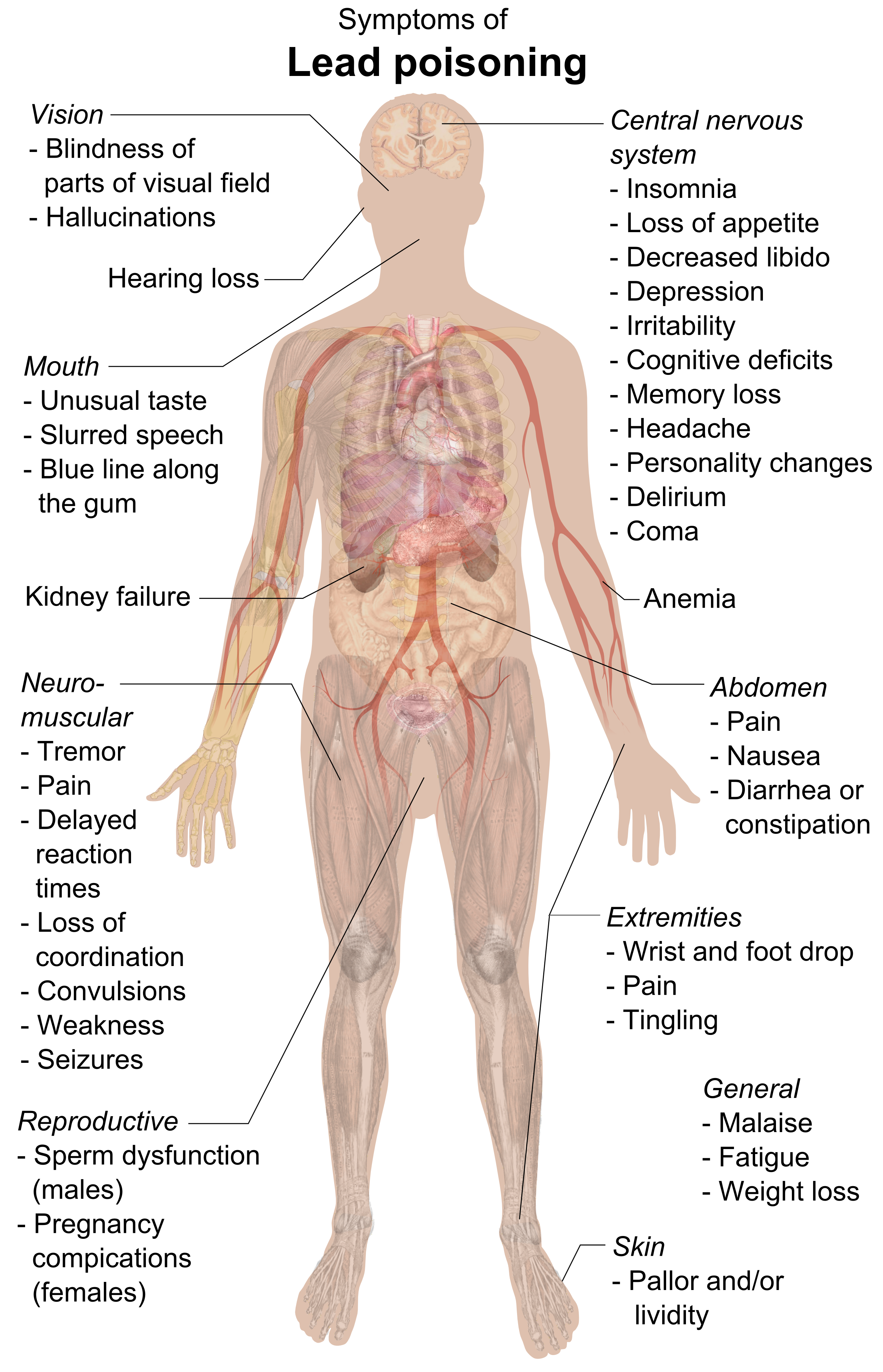 Symptoms of lead poisoning, taken from entries at corresponding Wikipedia article.